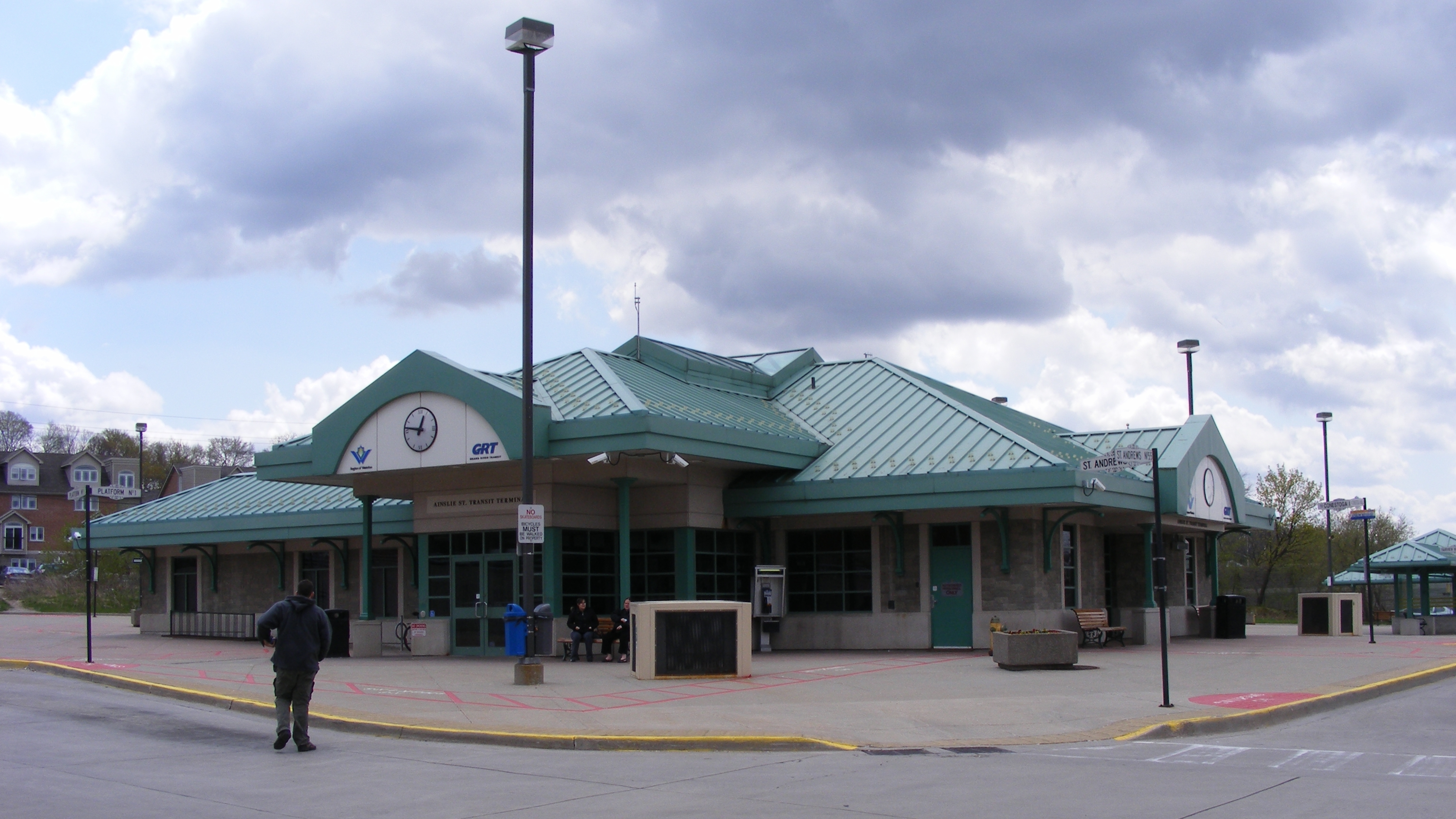 Ainslie Terminal in Galt, Cambridge, Ontario. Operated by Grand River Transit.